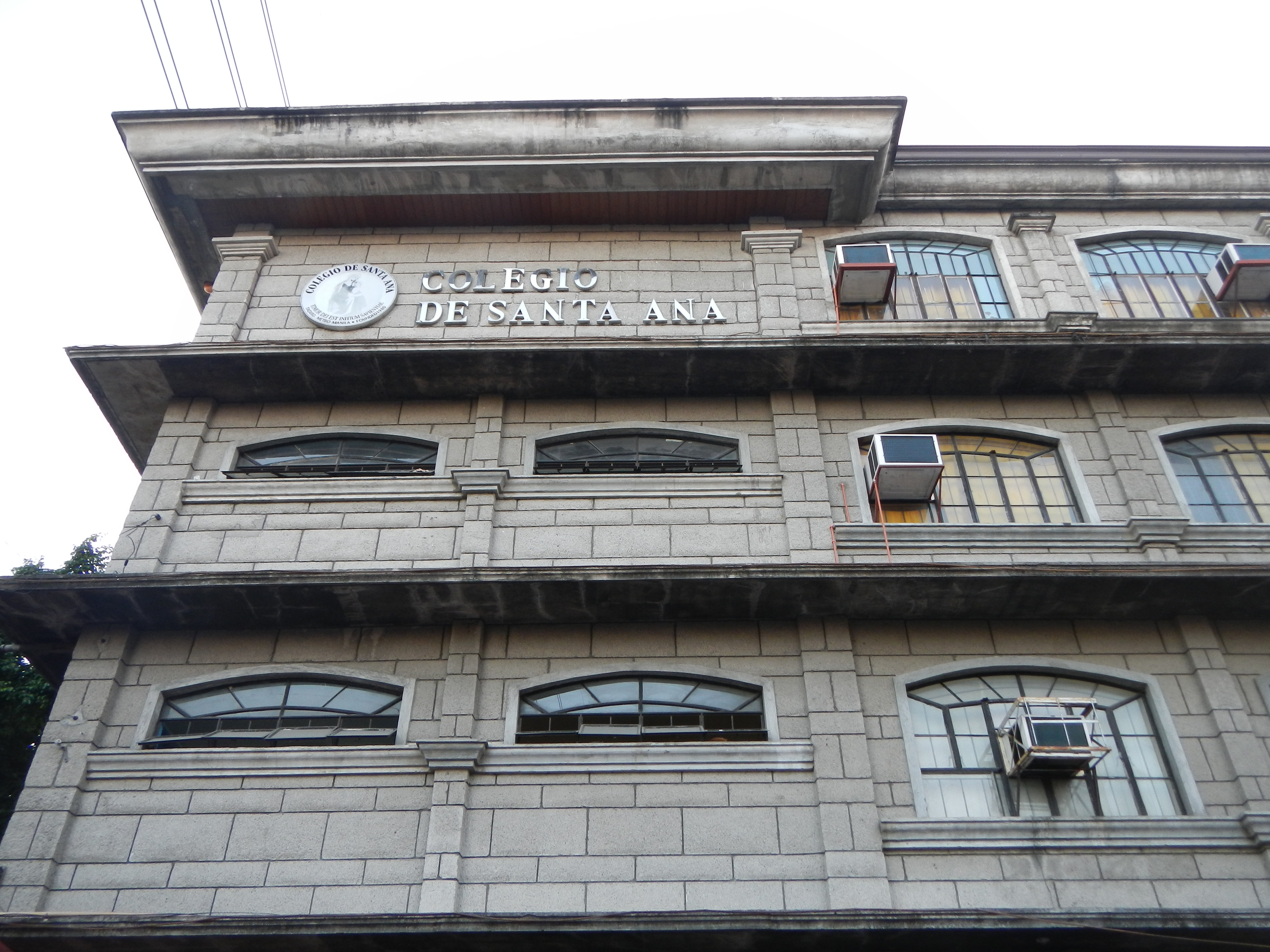 Colegio de Santa Ana[1]is a Private, Catholic (Parochial) institution located in Liwayway Street, Sta. Ana, Taguig City. Founded in 1980 by Rt. Rev. Msgr. Augurio I. Juta, CDSA offers Christian education.[2]